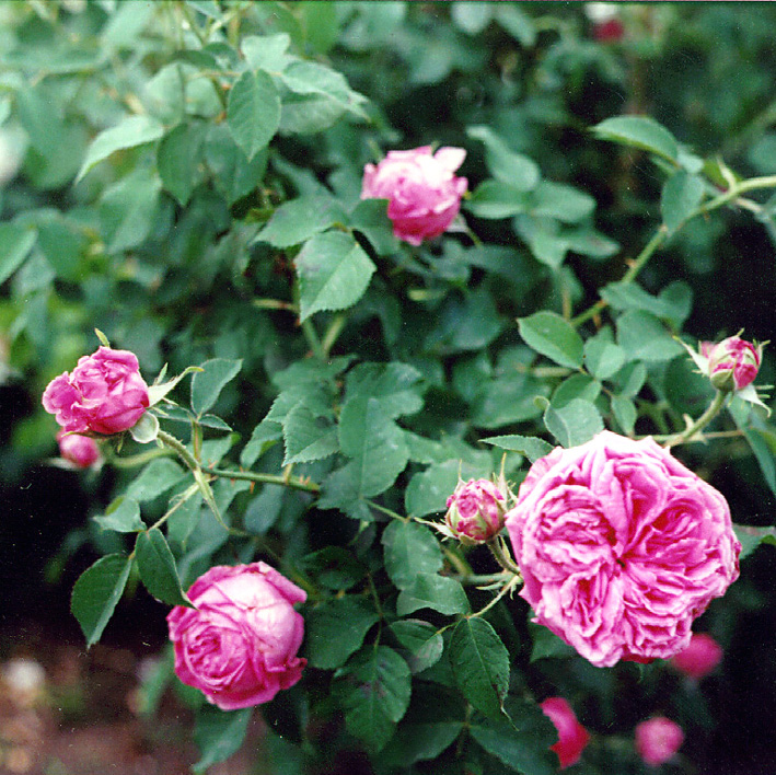 Old Garden Rose Remontant group